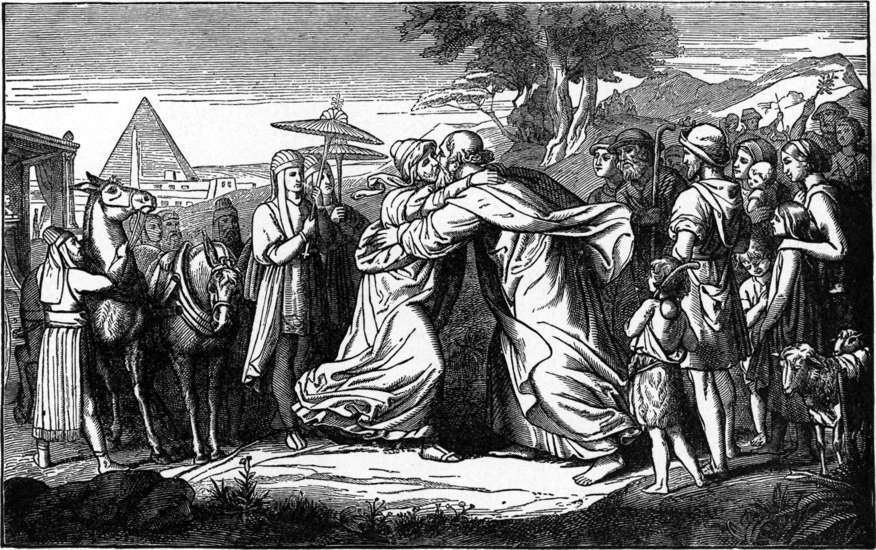 Joseph Kisses Jacob. Caption: "Joseph has sent for his father to come into Egypt. He rides out to meet him, and as soon as he meets him he gets down from his chariot, and runs to his father and puts his arms around his neck, and kisses him. Jacob, Joseph's father, is very old. He did not ever expect to see Joseph again. He thought Joseph was dead. How glad he is now to see his dear son once more! And Joseph is very kind to his father and to his brothers. He has sent for them all to come out of the land of Canaan, because there was no corn for them in that land. And he has brought them down into the land of Egypt, where there is plenty of food. And Joseph will bring them to the king, and the king will speak kindly to them. He will tell Joseph to give them some of the land of Egypt for their own, where they will have grass for their cattle, and where they can build houses for their wives and their little children to live in." Illustration from the 1897 Bible Pictures and What They Teach Us: Containing 400 Illustrations from the Old and New Testaments: With brief descriptions by Charles Foster